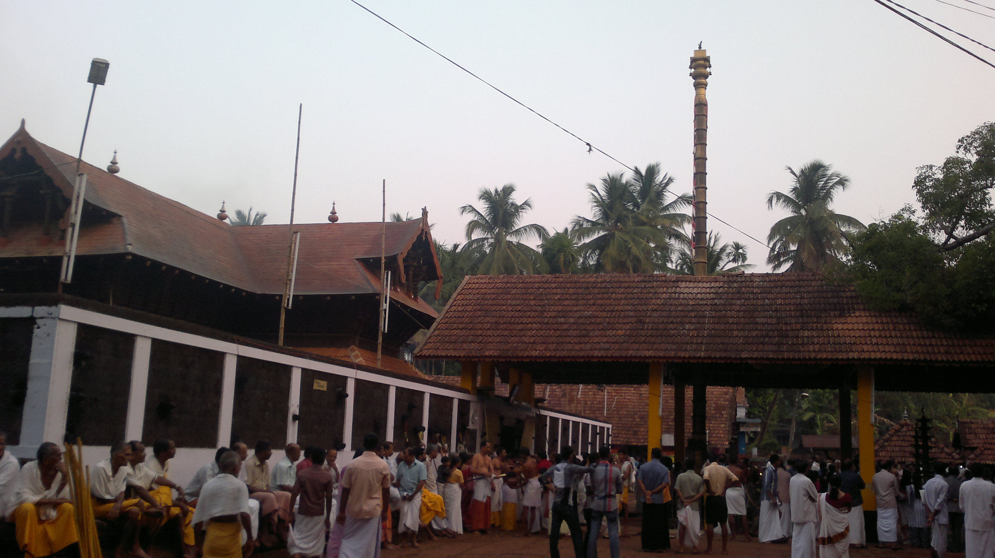 thalipparambu thrichambaram sree krishan temple